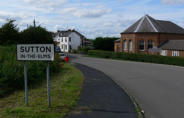 Sutton In-The-Elms Entering the village along Leicester Road. The Baptist Church is on the right of the photo.